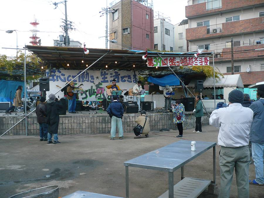 The 39th Kamagasaki Wintering Strike